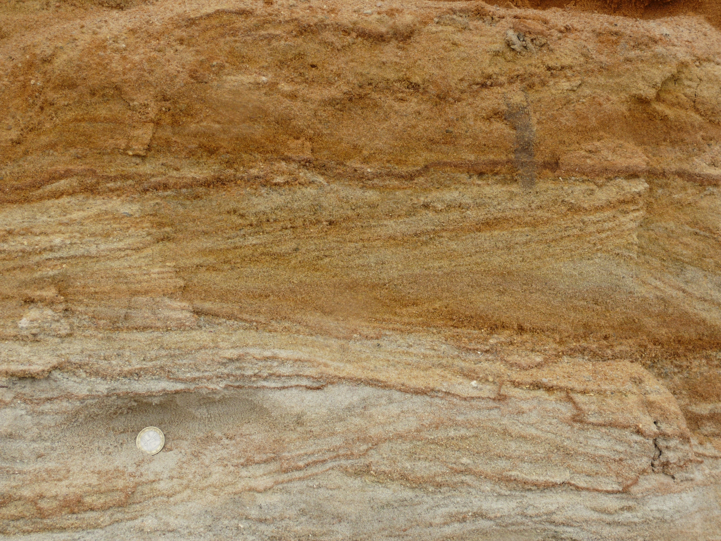 pleistocene Goldshöfer Sande, sandpit in Dietrichsweiler N of Ellwangen at river Jagst.